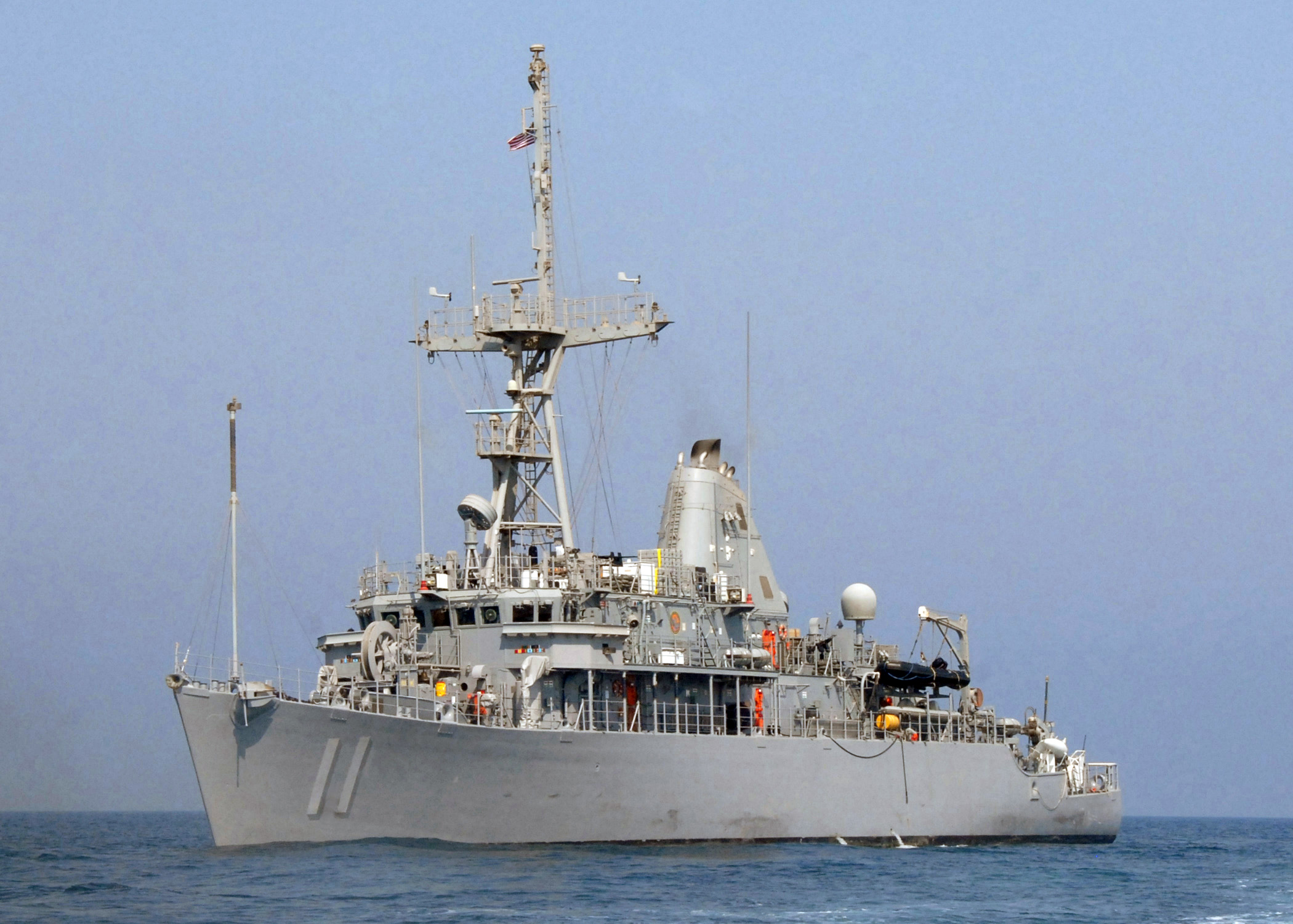 PERSIAN GULF (Aug. 27, 2007) – Mine warfare ship USS Gladiator (MCM 11) transits off the coast of Bahrain. Gladiator is participating in mine countermeasure exercises with the Bonhomme Richard Expeditionary Strike Group (BHRESG). BHRESG is conducting maritime operations in the 5th Fleet area of responsibility. U.S. Navy photo by